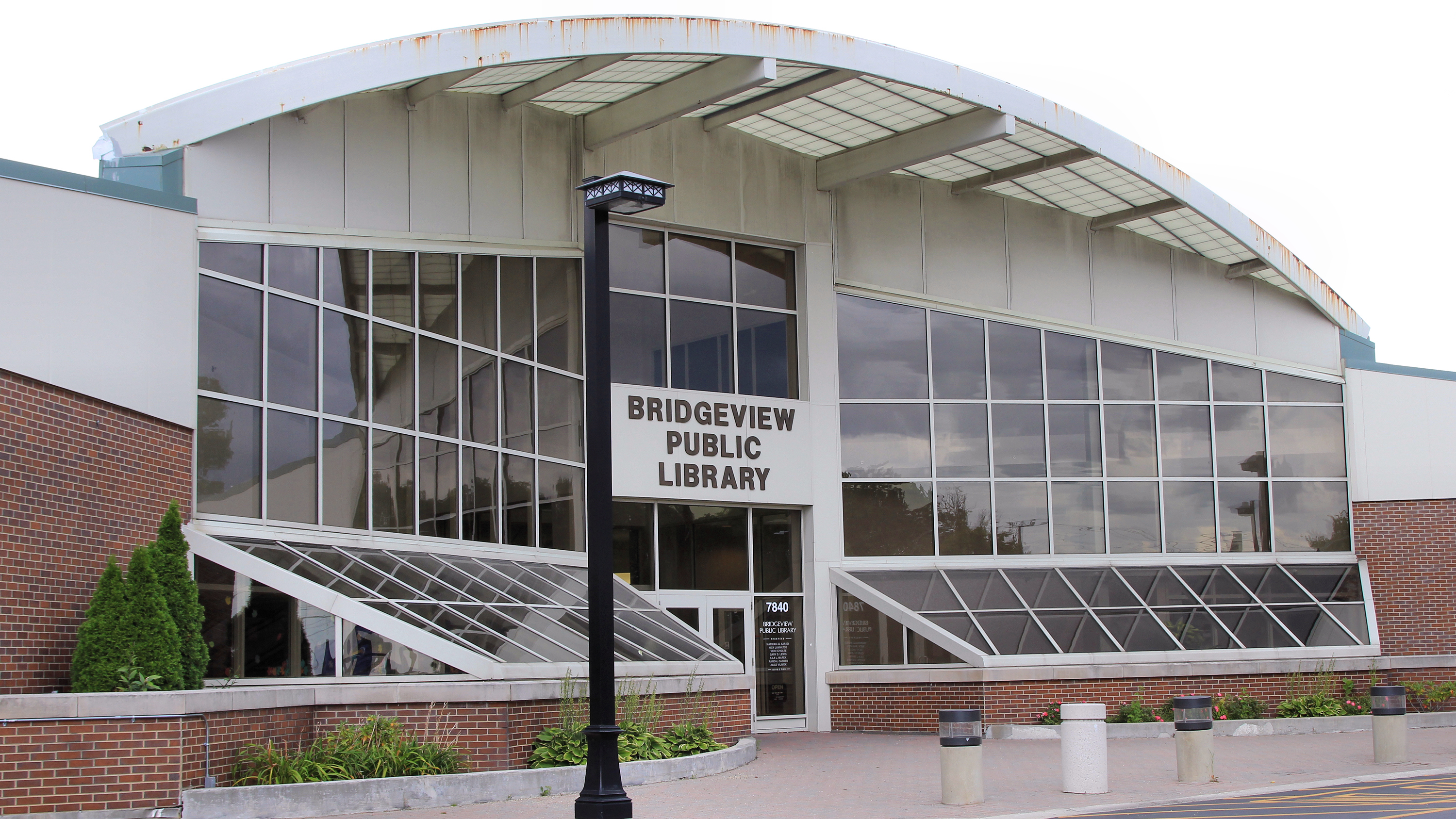 The Bridgeview Public Library in Bridgeview, Illinois, United States.